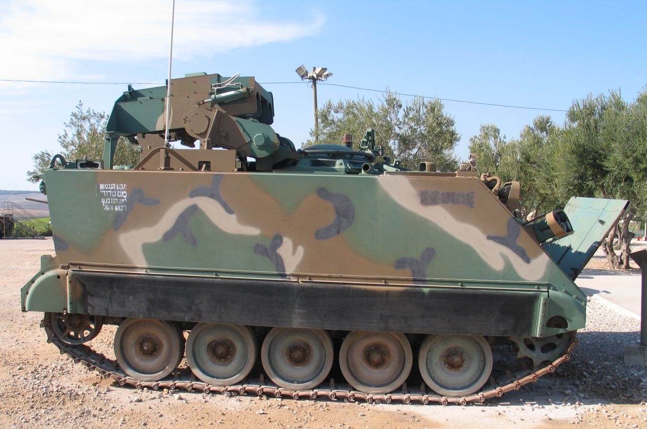 Description: M901 Improved TOW Vehicle in Yad la-Shiryon Museum, Israel. 2005. Source: Photo by me, User:Bukvoed.